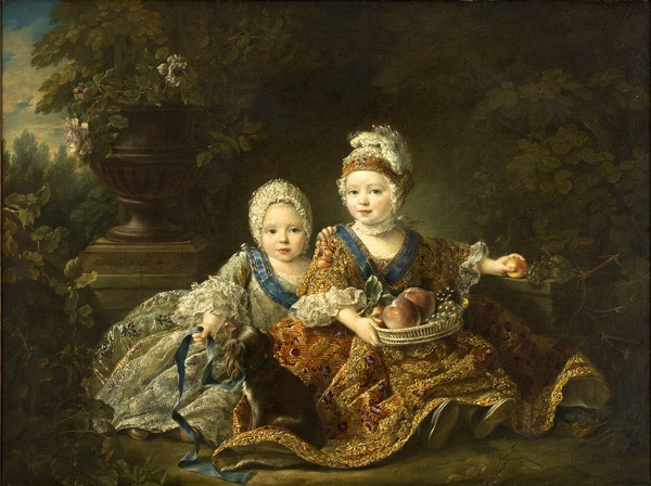 Portrait of Louis Stanislas Xavier, Count of Provence, and his elder brother, Louis Auguste, Duke of Berry, (the later King Louis XVI of France)